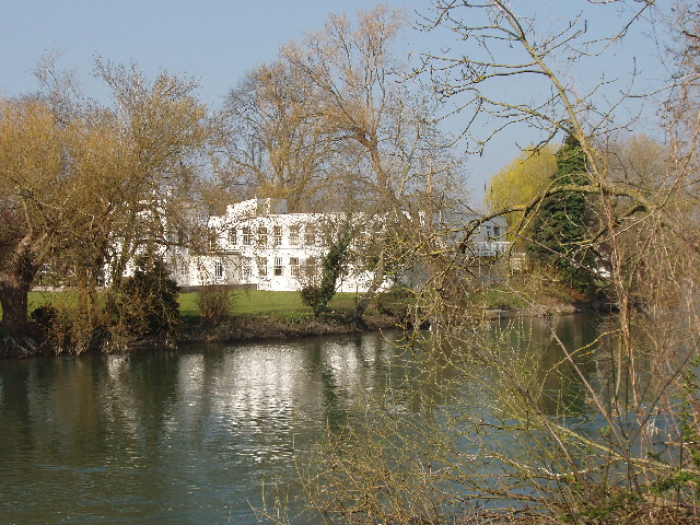 Monkey Island Monkey Island is a narrow island in the Thames, and can be reached only by footbridge or boat. It became firm ground only when rubble was dumped following the great fire of London in 1666. The 3rd Duke of Marlborough bought it in 1723, and since then there have been pleasure buildings, lawns, and latterly this hotel. See also Berkshire History website